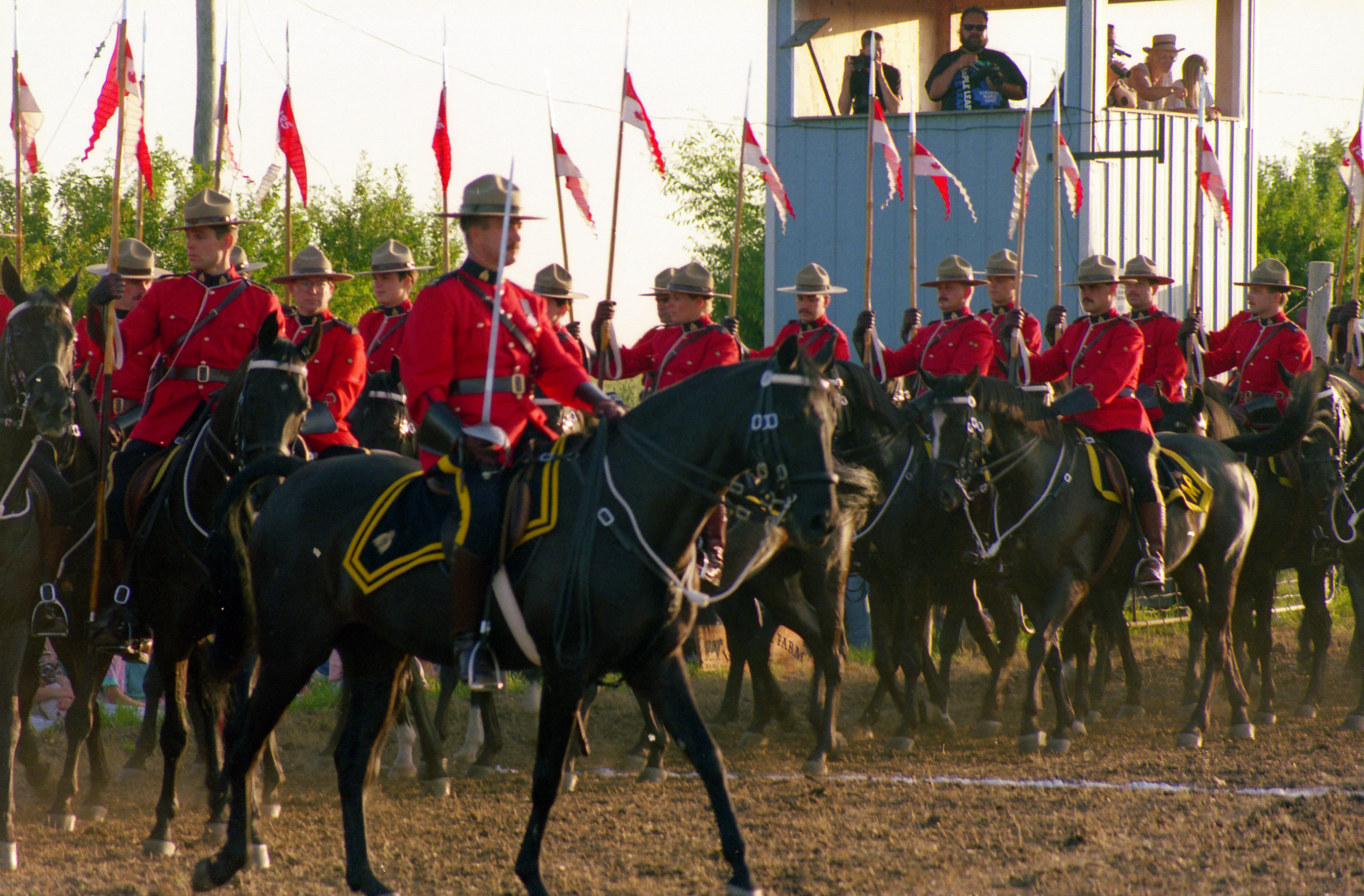 The RCMP Musical Ride parading in Roblin, Manitoba, Canada